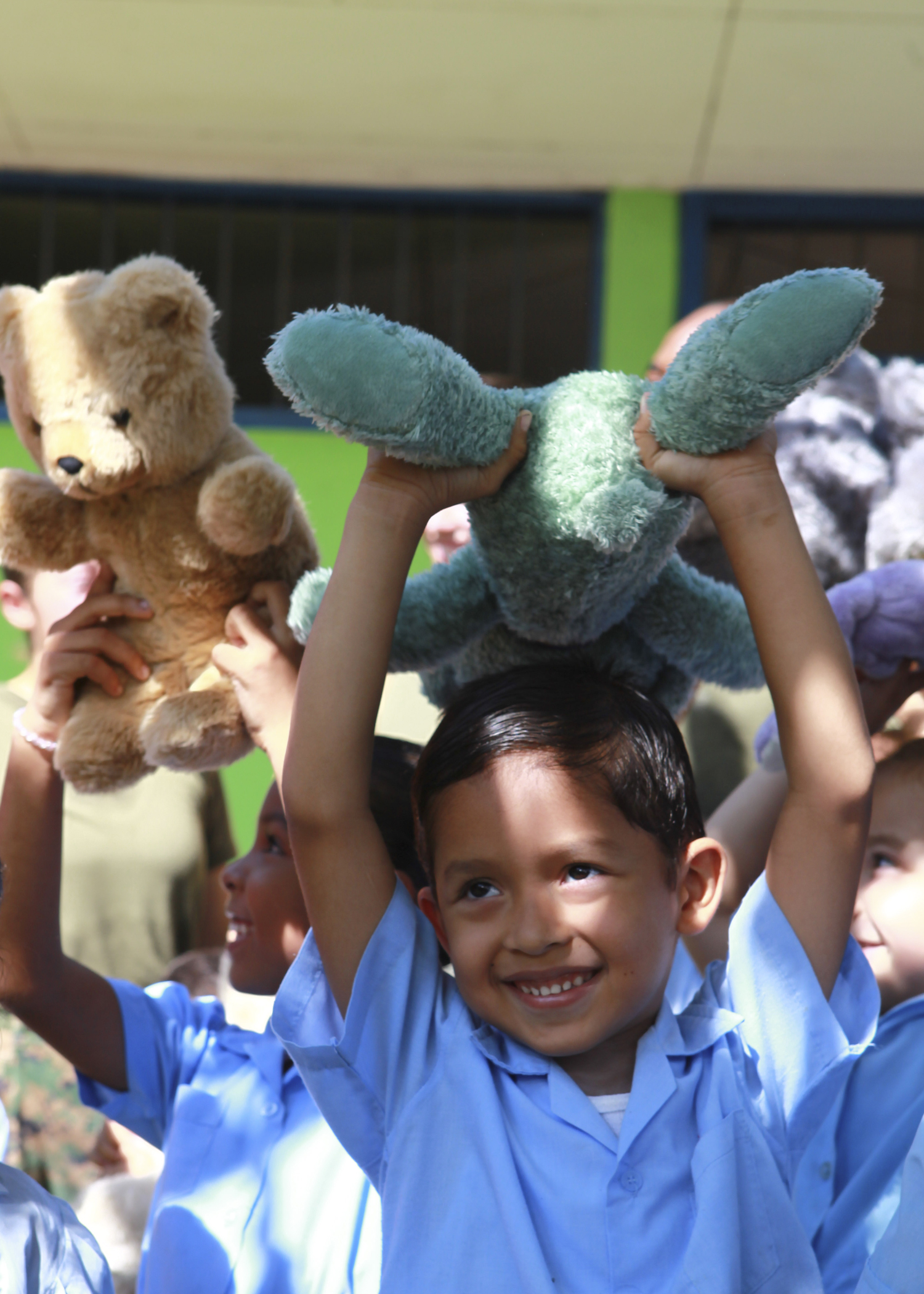 Costa Rican school children gather together after receiving stuffed animals from U.S. Marines and Sailors working with nongovernmental organization Give a Kid a Backpack at Hone Creek School in Hone Creek, Costa Rica, Aug. 25, 2010. U.S. Service members and civilians were deployed in support of Continuing Promise 2010, providing humanitarian assistance and disaster relief to the Caribbean and Central and South America.